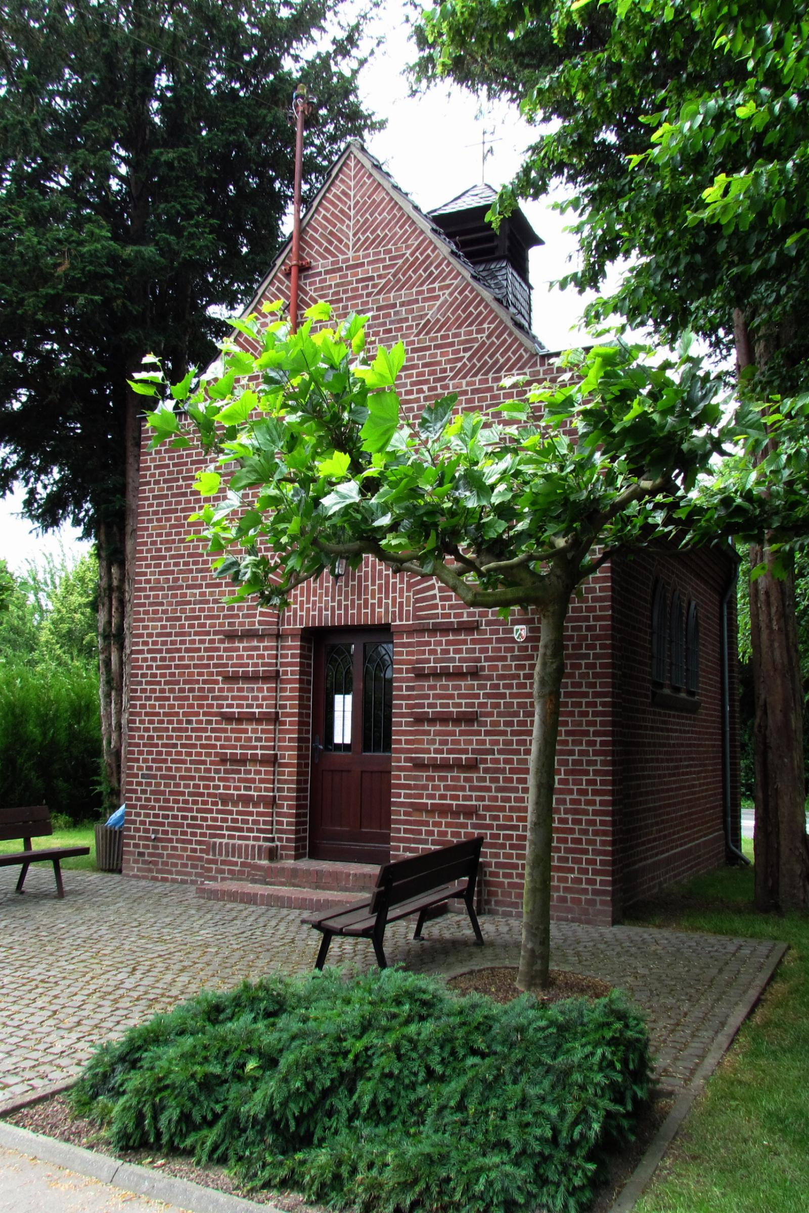 This is a photograph of an architectural monument.It is on the list of cultural monuments of Korschenbroich